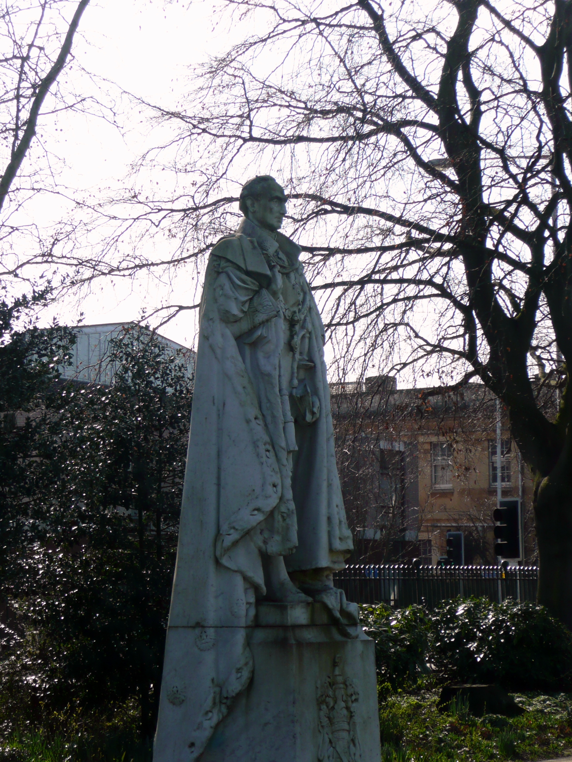 Statue of the 1st Marquess of Reading in Eldon Square Gardens. The Statue by Charles Jagger and completed in 1935 was originally erected in Delhi but was repatriated to Reading in 1961 and erected here in 1971. The nose had been damaged and badly repaired. In 2003 sculptor Jamie Vans carved and fitted a replacement in marble.